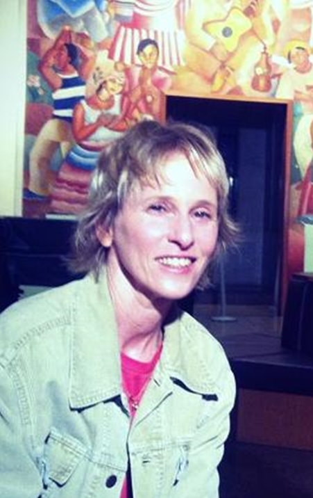 Acclaimed Brazilian choreographer Deborah Colker